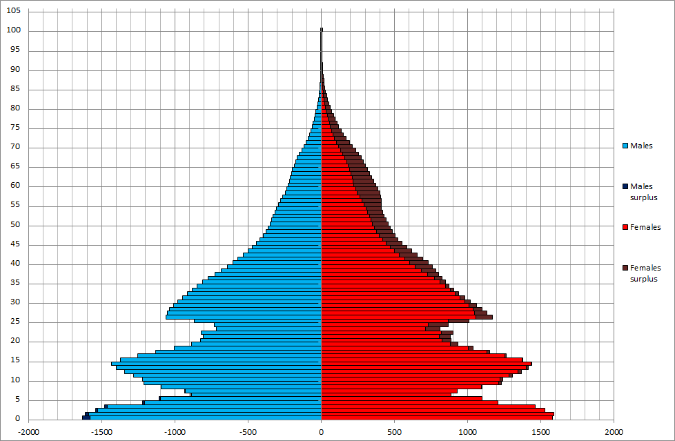 Russian population by age and sex (demographic pyramid) as of 01 January, 1941